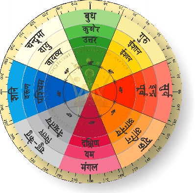 there is directional chakar which incorporates degess of direction and devtas of directions and planets related to directions